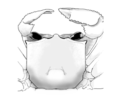 Ocypode fabricii dorsal view (legs excluded)